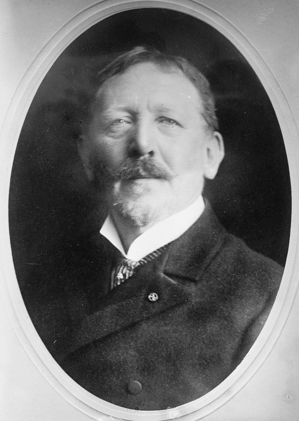 Austrian conductor Emil Paur (1855-1932)